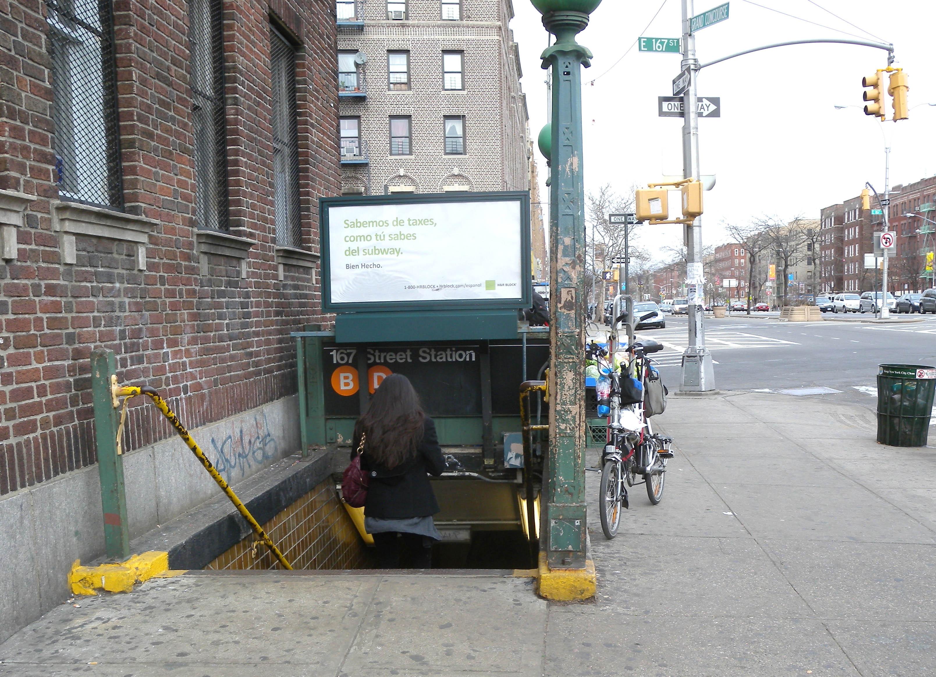 Looking north at en:167th Street (IND Concourse Line) stair on a cloudy afternoon.